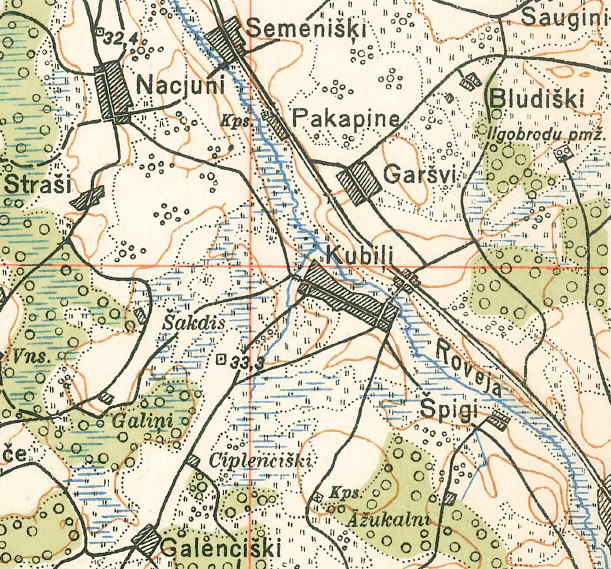 Kubiliai map from 1930